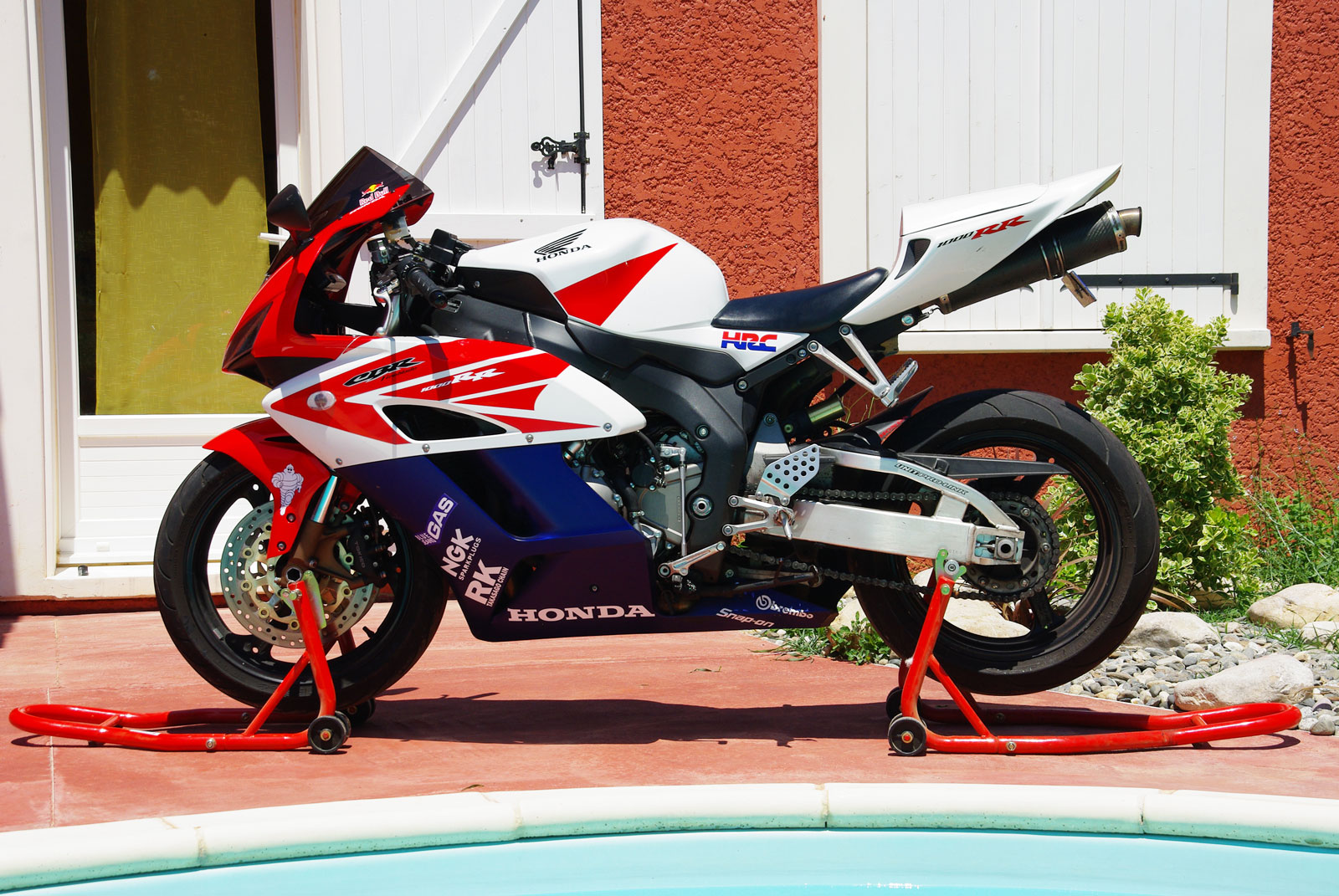 Honda CBR 1000 RR Fireblade Year:2004